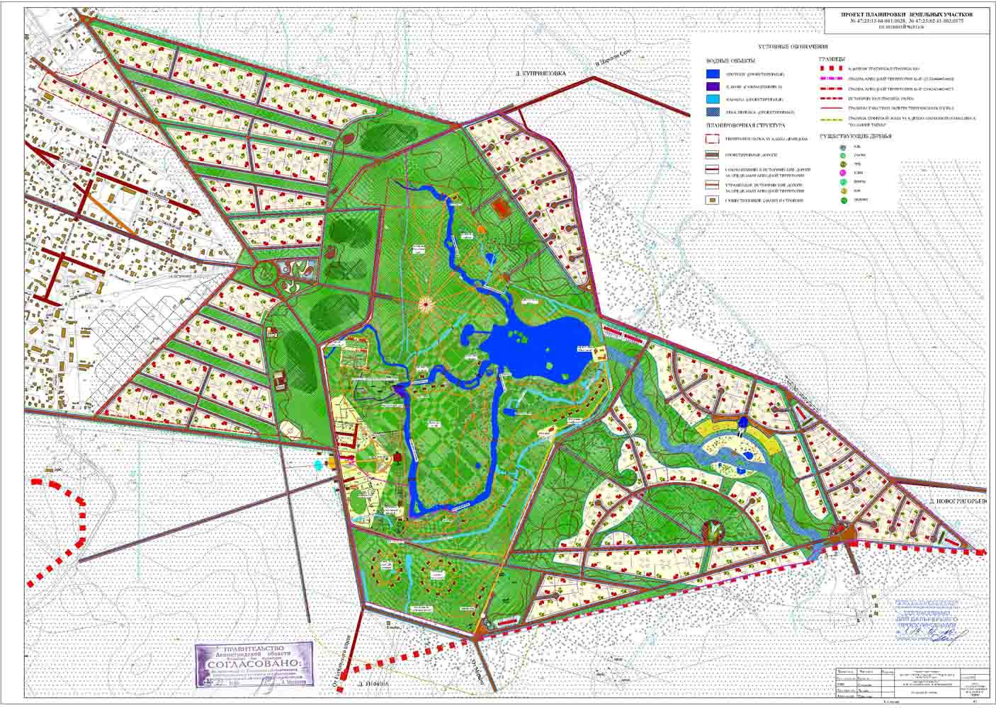 The project of development of manor Dimidova (Russia)